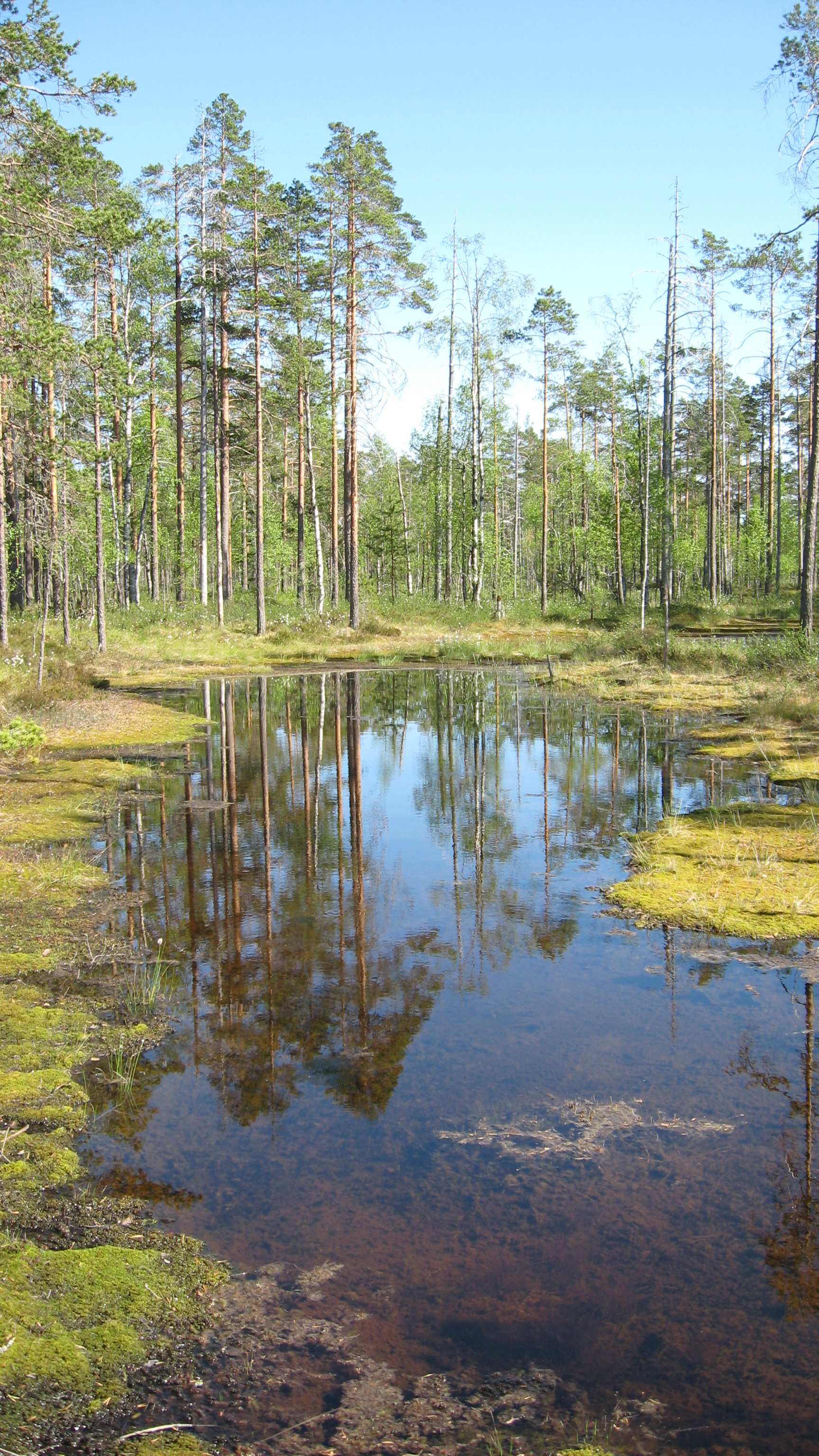 A little bog lake in Lauhanvuori National Park, Isojoki, Finland.